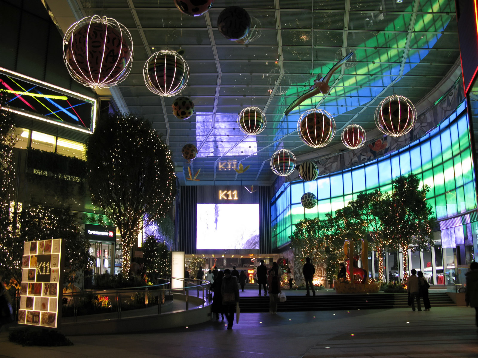 Night Scene of The Piazza, K11 (public open space)